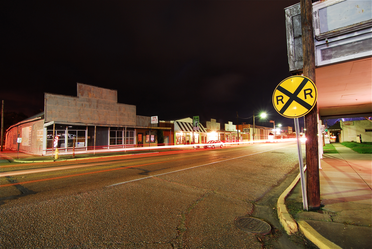 Part of downtown Rayne in Oct 2011